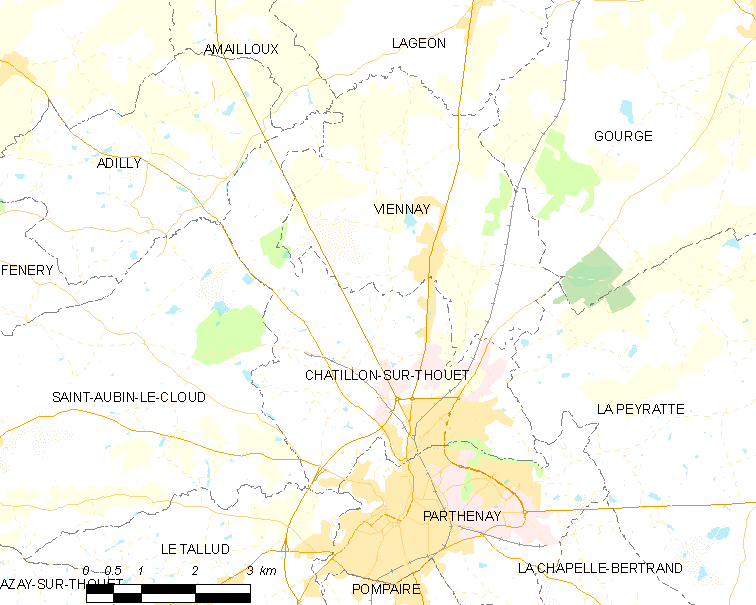 Map of French municipality Châtillon-sur-Thouet